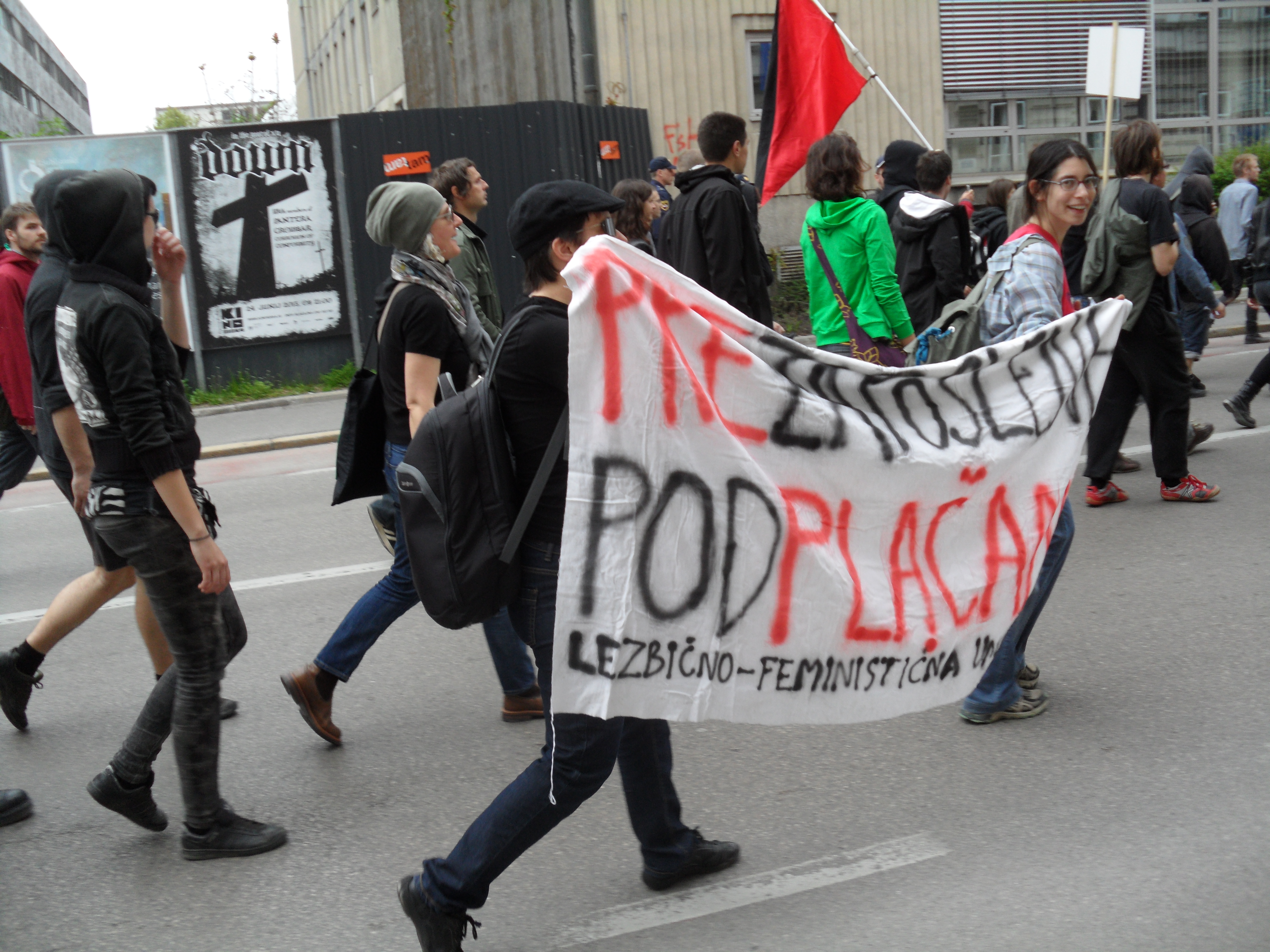 Demonstration in Ljubljana on Saturday, April 27th, 2013. The demonstration is being organized by the All Slovenian Uprising, whose supporters have staged rallies around the country calling for Slovenia’s "political elites" to step down. April 27th holds symbolic meaning (the formation of the liberation front during WWII) and many protesters of the event were wearing Ex-Yugoslav symbols. Around 2000 people attended the event.